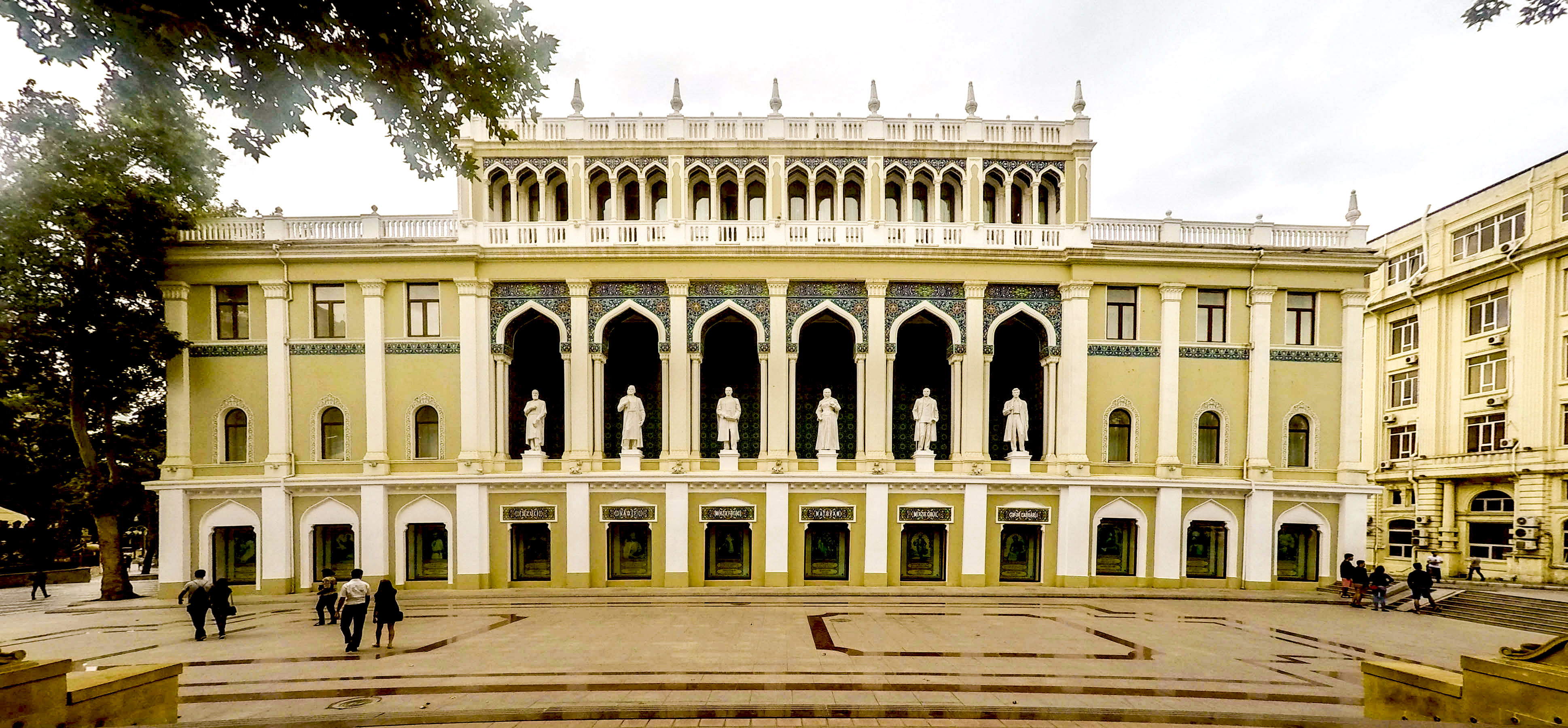 Nizami Museum of Azerbaijan Literature, Baku, 2015